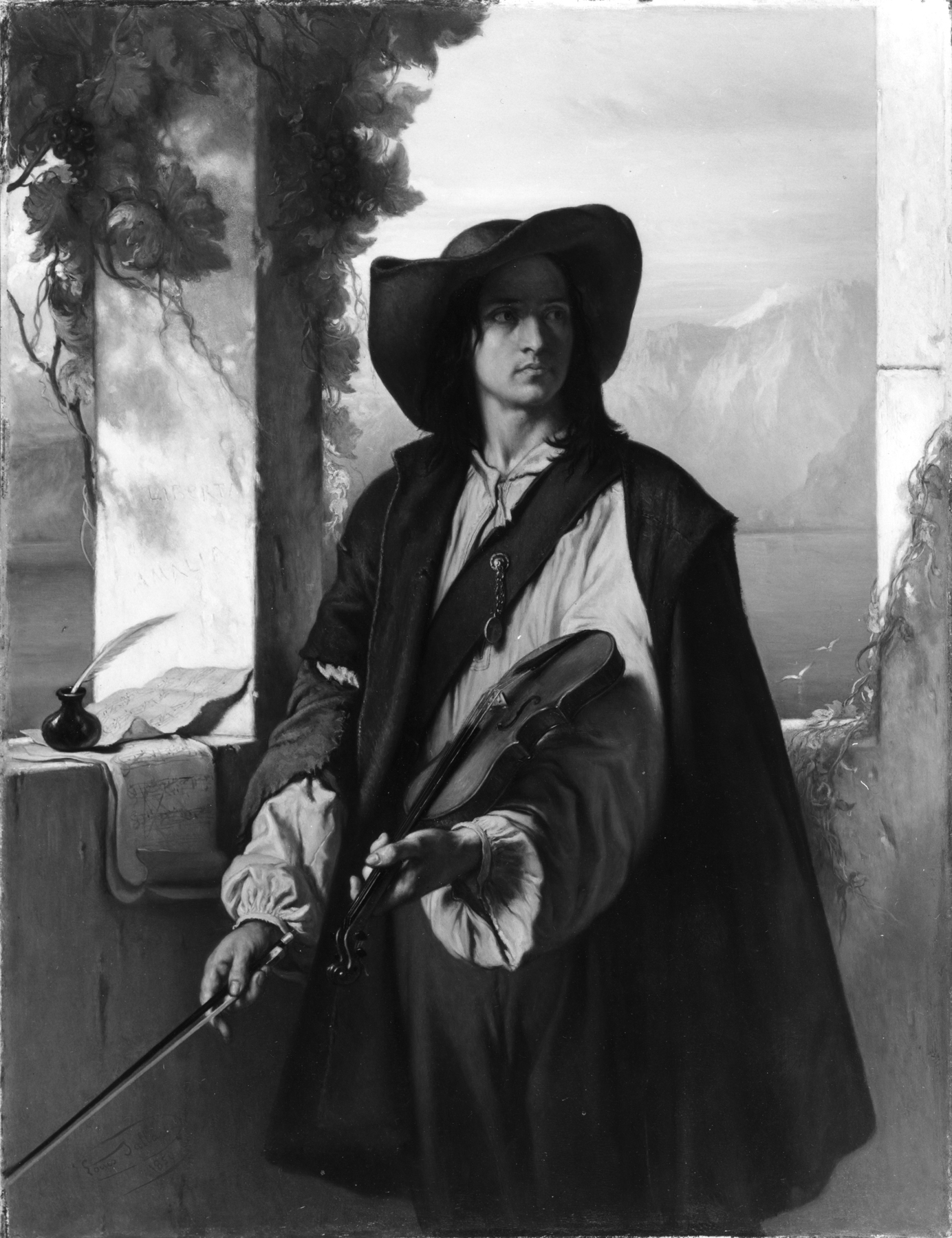 This painting typifies the so-called "juste-milieu" (middle path) for which Gallait was so admired during his lifetime. The subject is Romantic in its idealization of the poor but virtuous itinerant musician, who bows to no authority but his own artistic muse. At the same time, it is restrained in its emotional tenor and painted with great technical assurance in the rendering of the body and in the carefully described details of the musician's dress. This is a reduced version of this subject now at the Musées royaux des Beaux-Arts of Belgium. When the larger version was exhibited at the Salon of 1851, critics praised the composition for its masterful drawing and melancholic dignity.